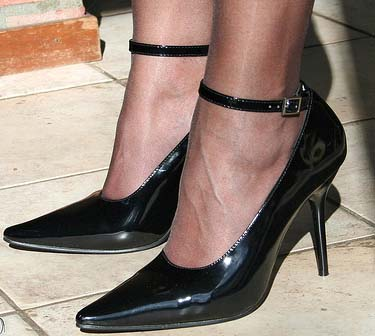 Stiletto heels